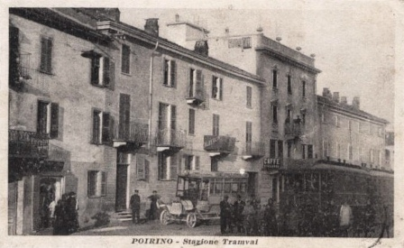 Poirino, tramway station